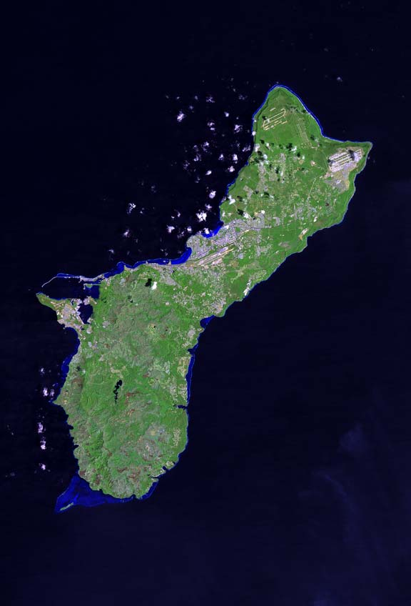 The raw satellite imagery shown in these images was obtain from NASA and/or the US Geological Survey. Post-processing and production by